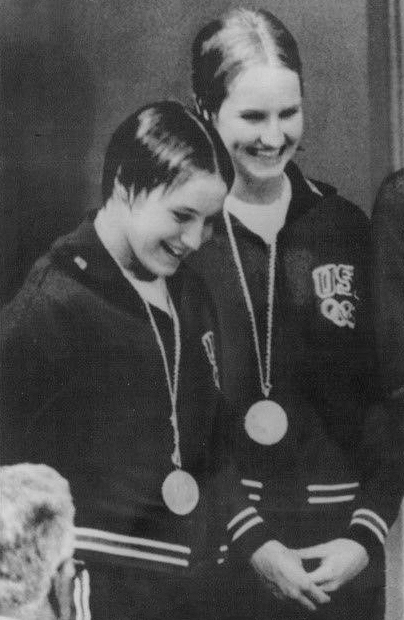 LG17 '72 Wire Photo DEARDRUFF NEILSON BELOTE CARR Olympic Record Gold Medal Swim